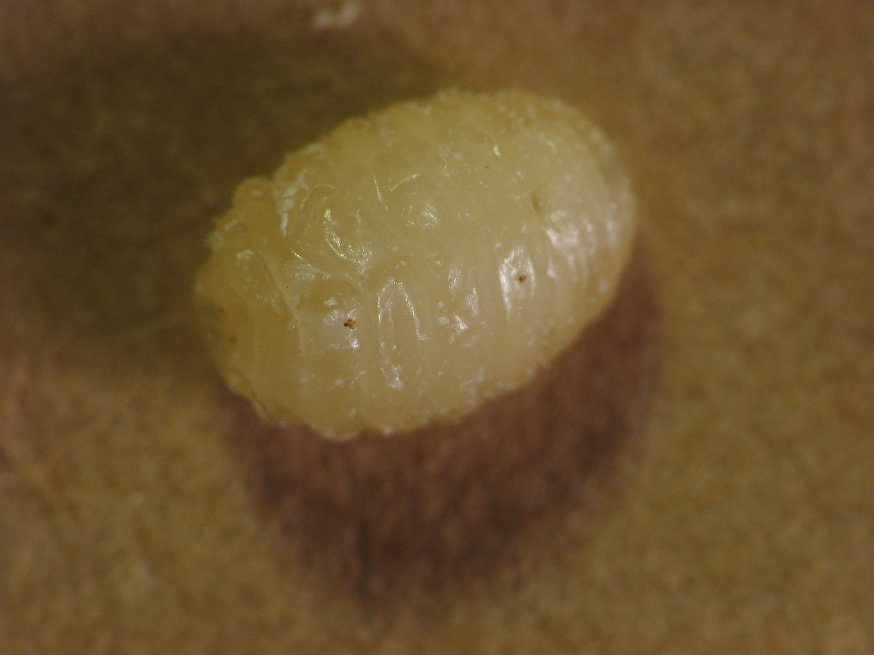 Larva of Eurosta solidaginis (Goldenrod Gall Fly) from stem round gall. Peace Valley Nature Center, Bucks County, Pennsylvania, USA.